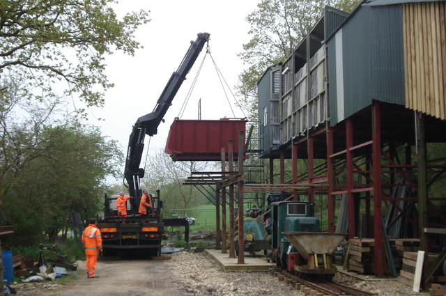 Purbeck Mineral & Mining Museum under construction One of the Bins is being lifted into position. The museum will add the Purbeck Narrow Gauge railway element to the Swanage Railway at Norden when it opens.